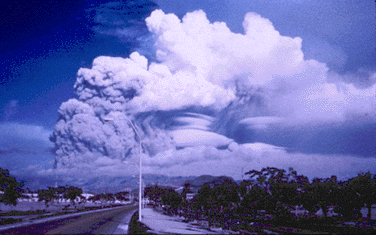 The Pinatubo days before the eruption on June 15th, 1991